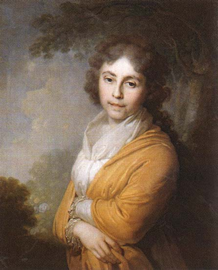 Portrait of Maria Lopukhina (1777-1805)